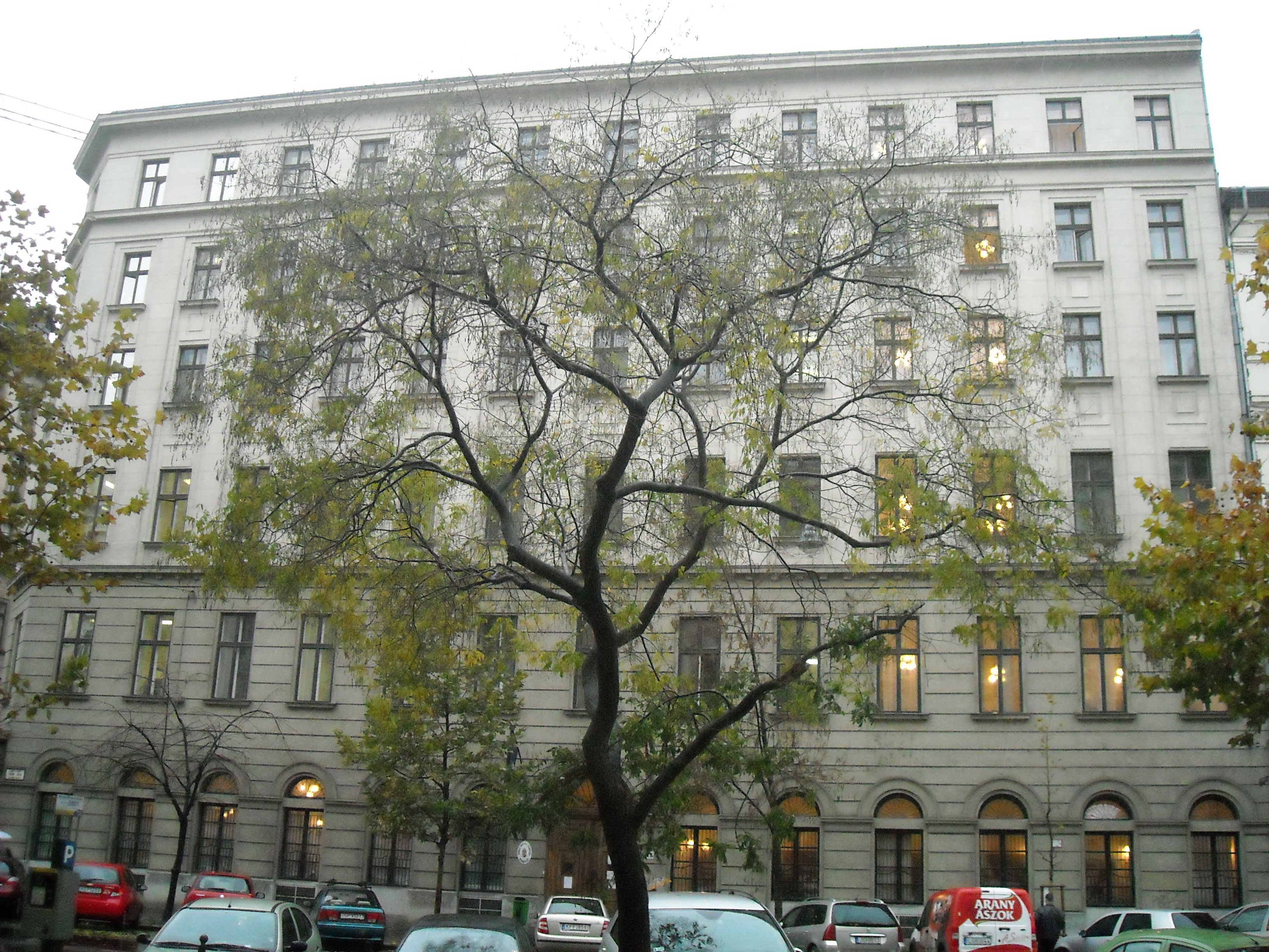 Cégbíróság, monument ID 8105. - Nádor utca 28, Budapest